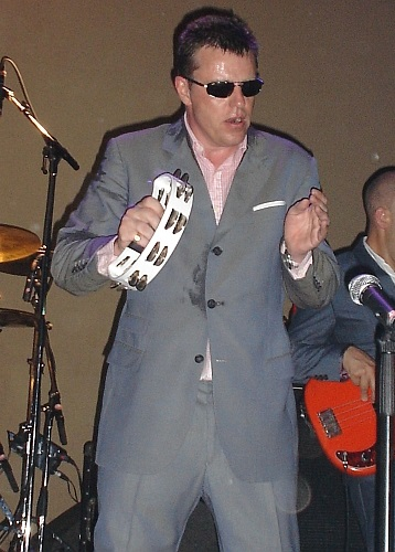 Graham "Suggs" McPherson, lead singer of Madness, performing live at the Melkweg venue, Amsterdam, 19-07-2005